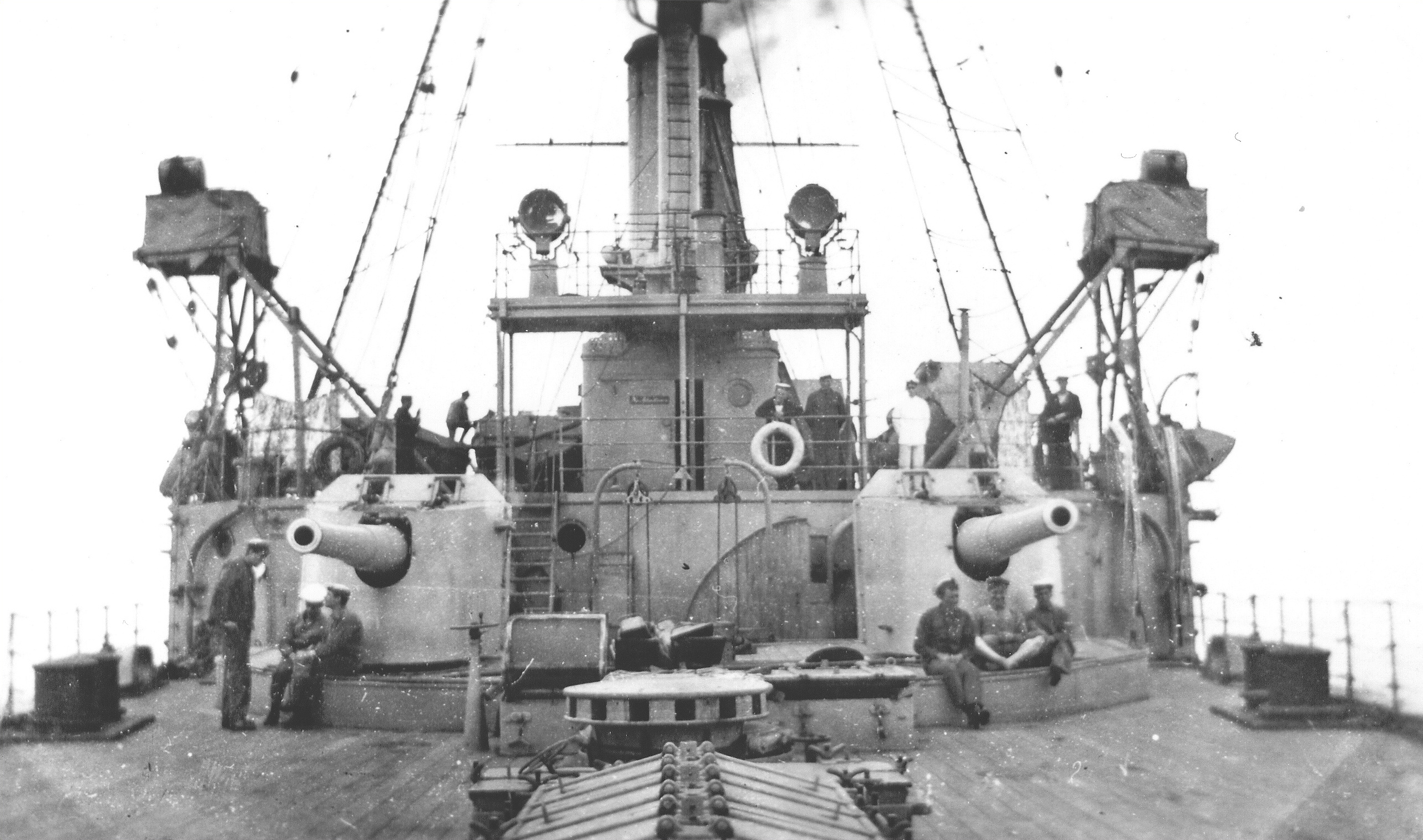 QF 6 inch guns on the quarterdeck of Canadian cruiser HMCS Niobe (formerly HMS Niobe), looking forward.